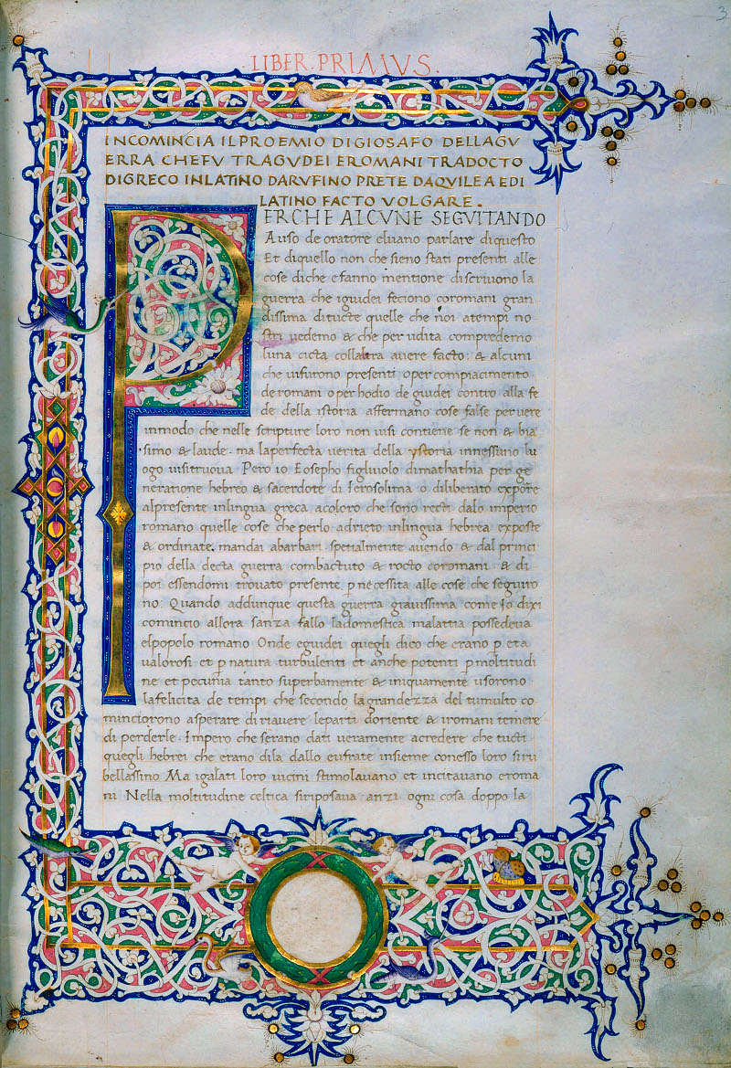 MS Gar. 15, in the John Work Garrett Library, Johns Hopkins University. f. 3r. Italian translation of the Jewish Wars by Josephus.